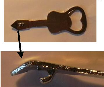 Kaffeemilchdosenoffner own work papa1234 2007-01-07